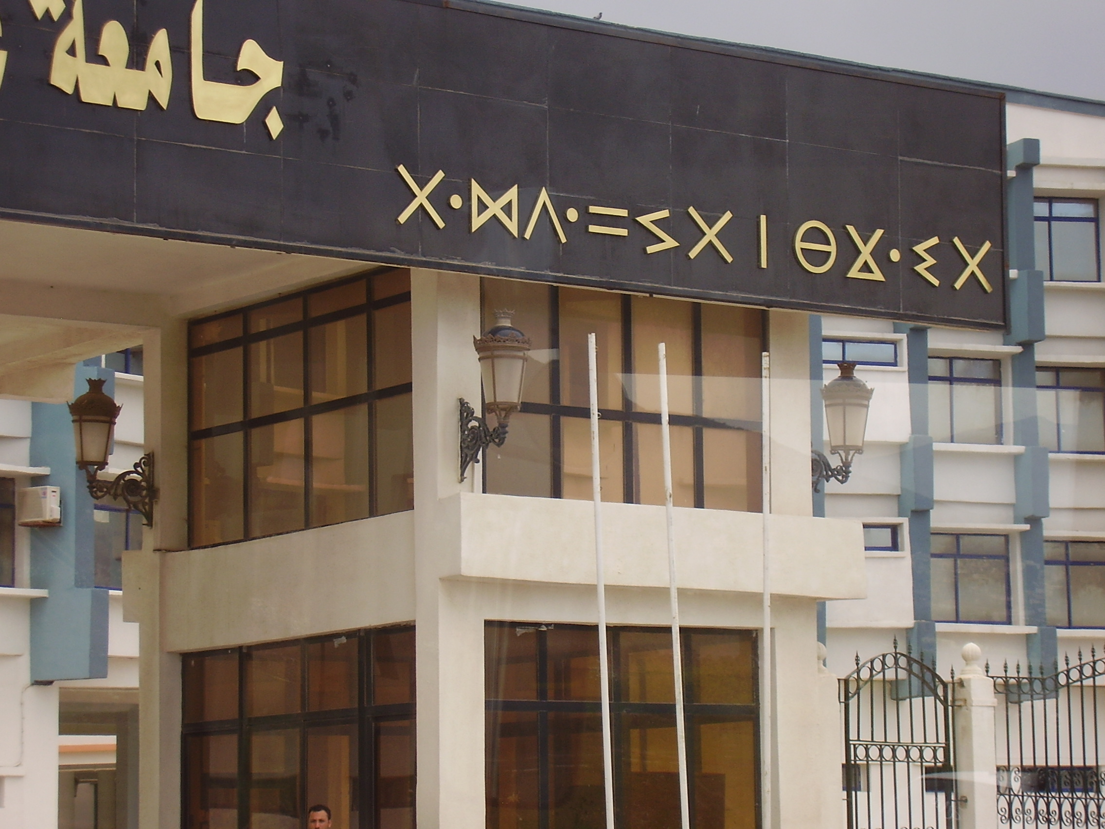 University of Béjaïa (Algeria)(campus aboudaou)